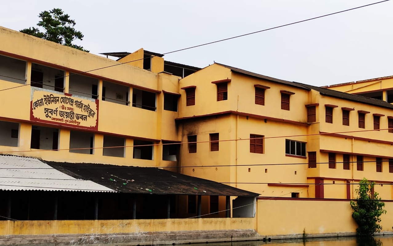 PHOTO